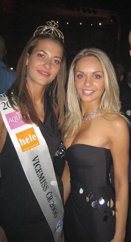 my home page image